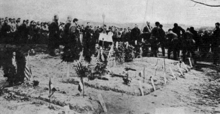 Memorial service held on the battlefield at the Rouge Bouquet wood in France near Baccarat, Meurthe-et-Moselle. A 7 March 1918 German artillery bombardment had buried 21 men of the "Fighting 69th" Regiment NY National Guard (part of 165th Infantry Regiment, 42nd "Rainbow" Division)--unable to rescue the buried men because of the continued intense bombardment and mudslides, 19 died and only two were rescued alive. A poem called "Rouge Bouquet" by Joyce Kilmer commemorated the event.